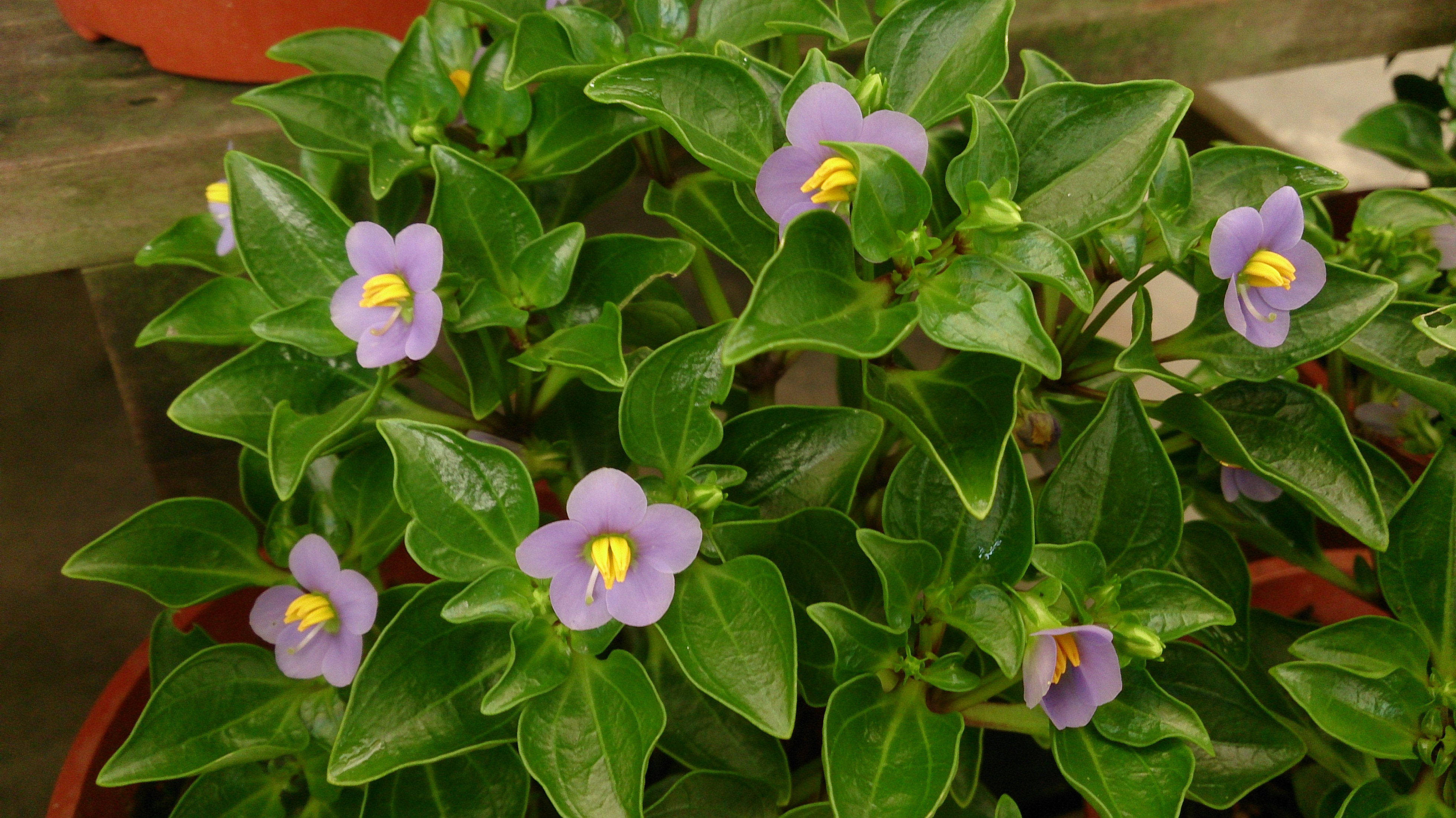 Exacum affine. Common name: Persian violet